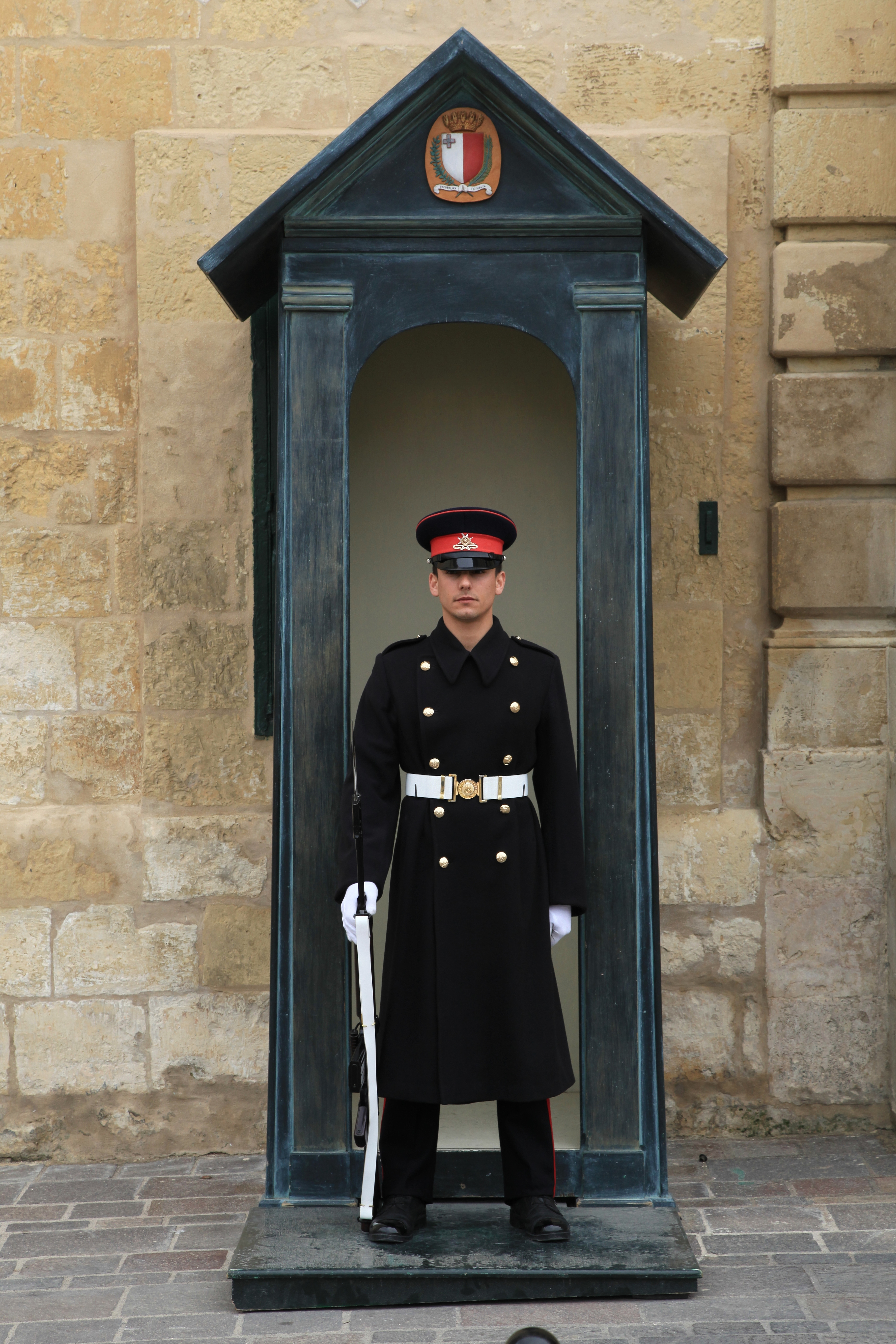 Grandmaster's Palace at Misraħ San Ġorġ, Triq ir-Repubblika in Valletta, Malta